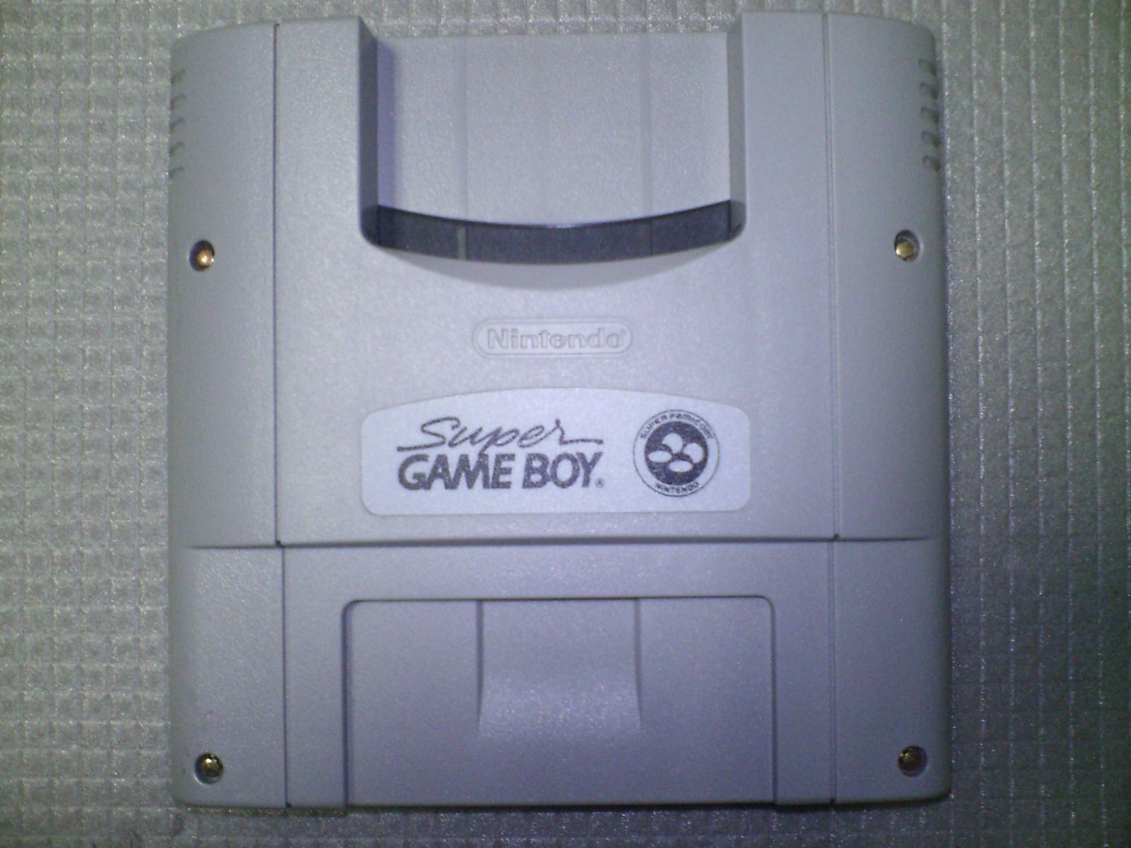 The Super Game Boy cartridge, Super Famicom version